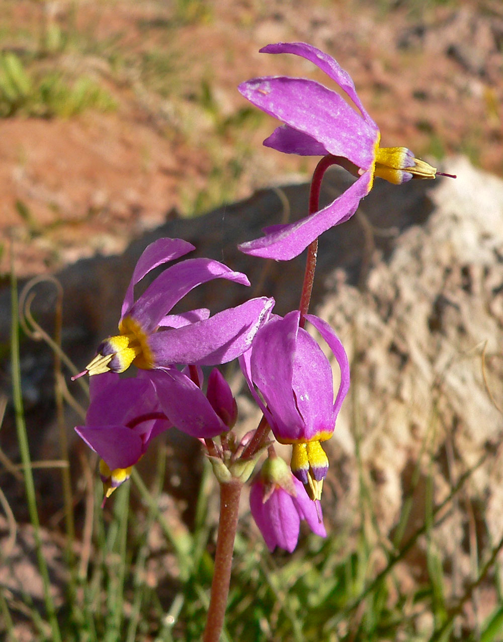 Dodecatheon pulchellum subsp. pulchellum in Calico Basin, west of Las Vegas, Nevada